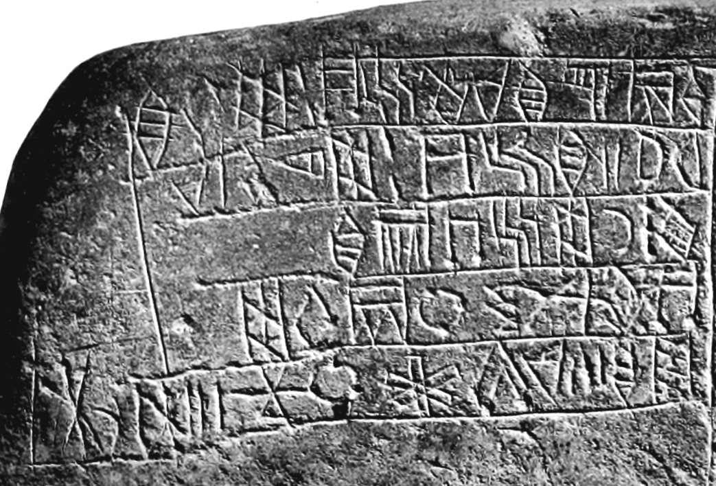 Bilingual Linear Elamite Akkadian inscription of king Kutik-Inshushinak Table of the Lion Louvre Museum Sb 17 (Linear Elamite detail)